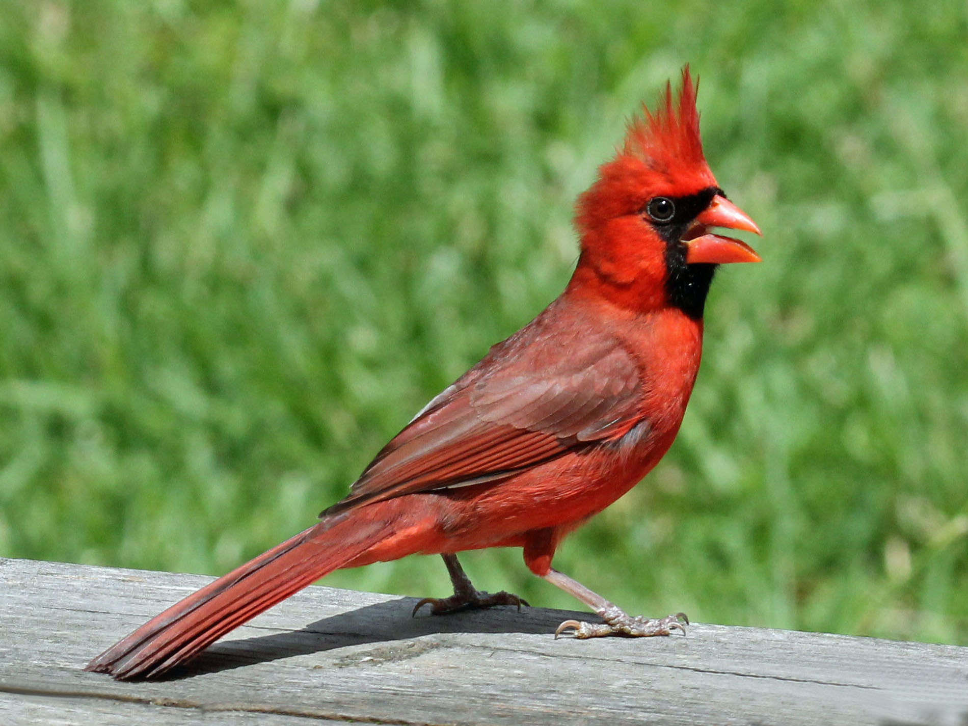 Northern Cardinal (Cardinalis cardinalis) in Ash, North Carolina